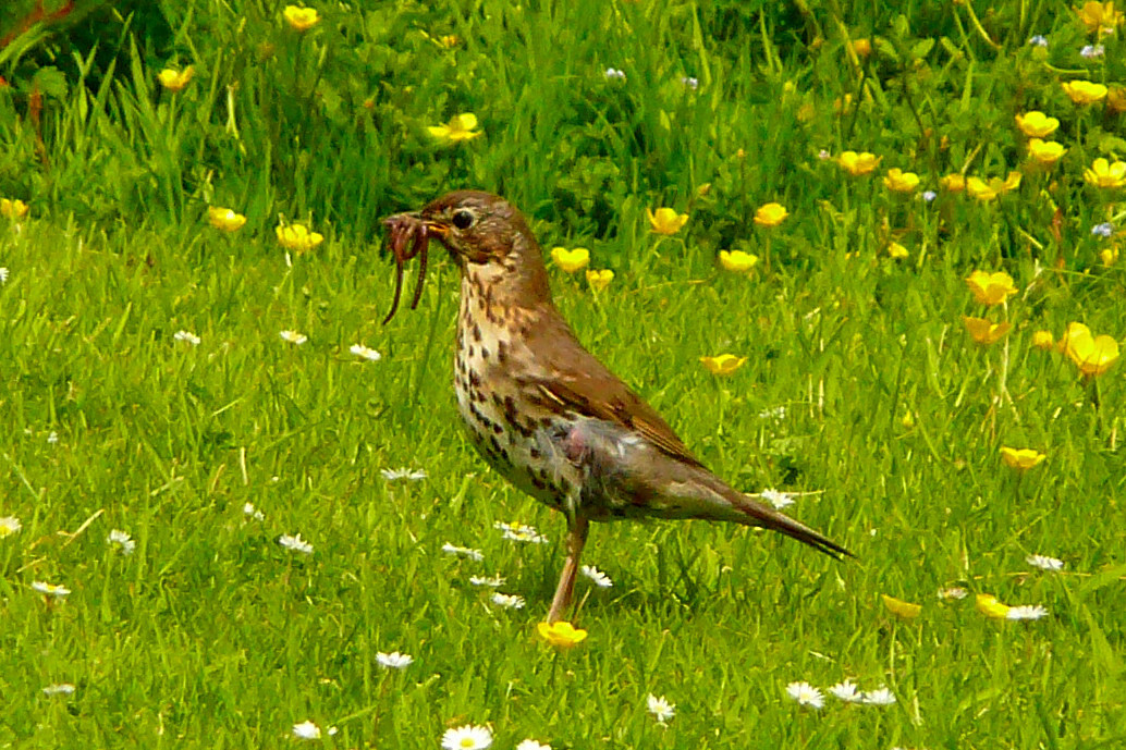 Song Thrush (Turdus philomelos) with a beak full of earthworms. Buttercup and daisy flowers can be seen in abundance on the grass. "Looks like a young bird and it certainly isn't going hungry!"